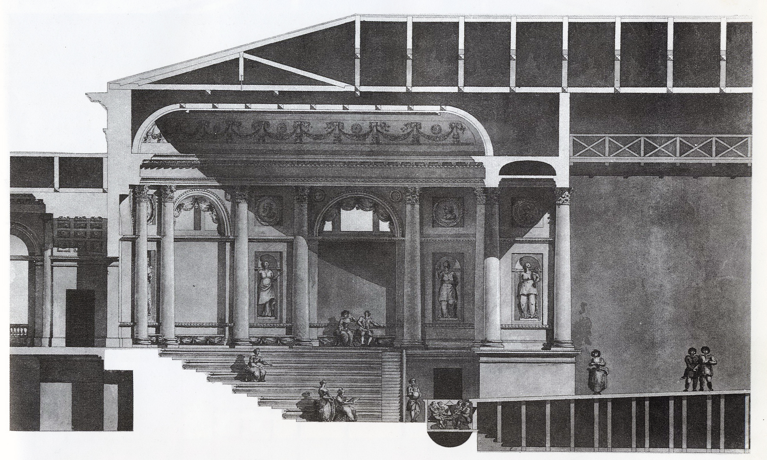 Giacomo Quarenghi. Project auditorium of the Hermitage Theater. 1783